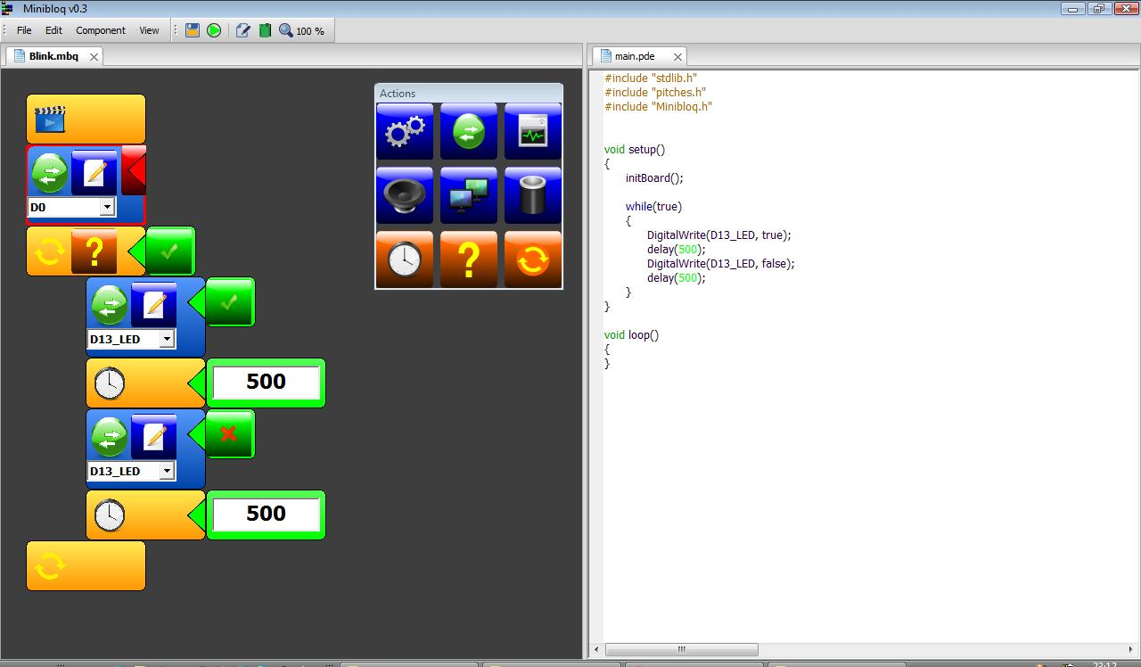 A screenshoot from Minibloq.